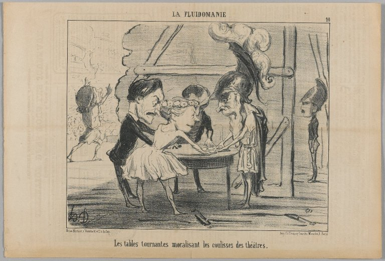 Part of the series La Fluidomanie, no. 10. Published in Le Charivari, 13 June 1853.